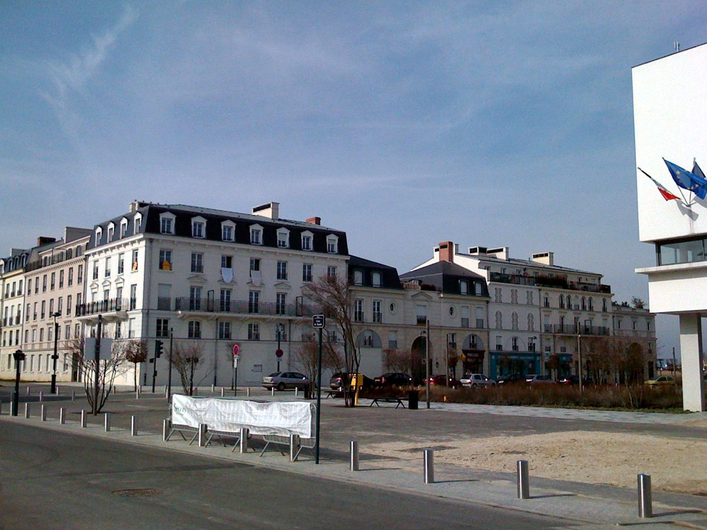 Serris' townhall, in Marne-la-Vallée's new town, in Val d'Europe's area.